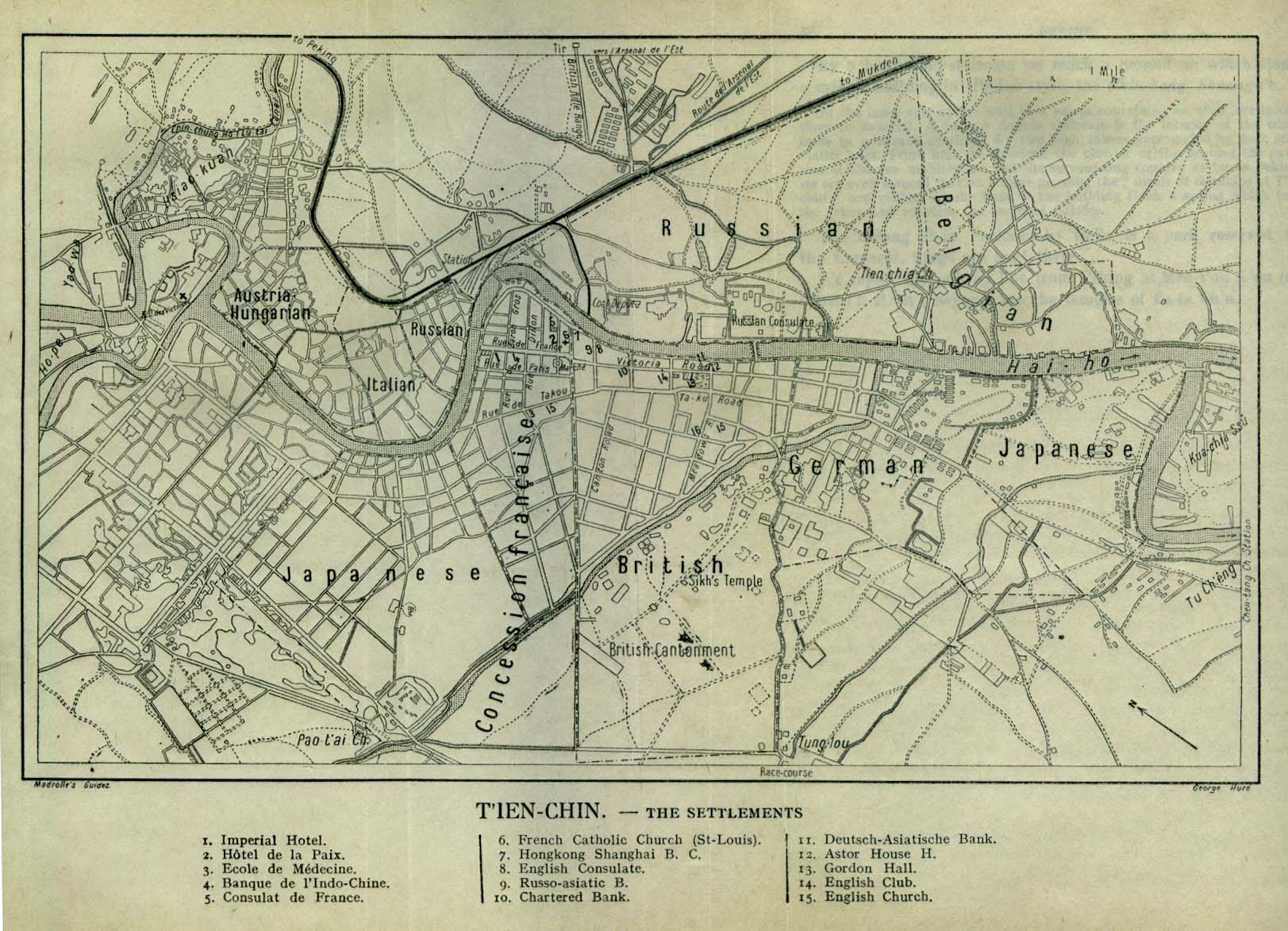 The map of foreign settlements (concessions) in Tianjin, as of 1912. Originally titled "T'ien-chin - The Settlements 1912", From "Madrolle's Guide Books: Northern China, The Valley of the Blue River, Korea." Hachette & Company, 1912.